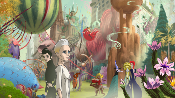 Illustration by David Polonsky